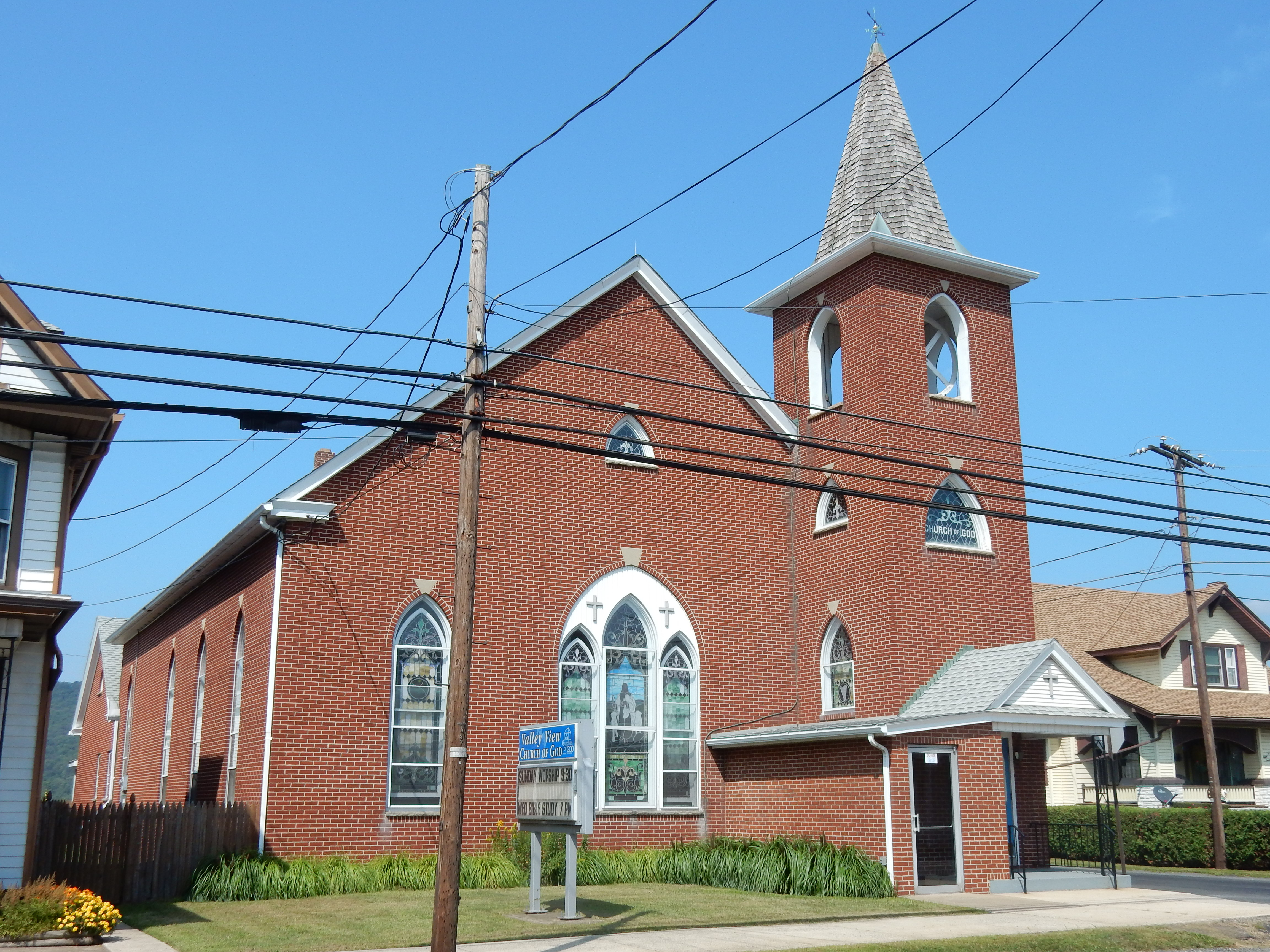 Church of God, E. Main St, Valley View, Schuylkill County, Pennsylvania.